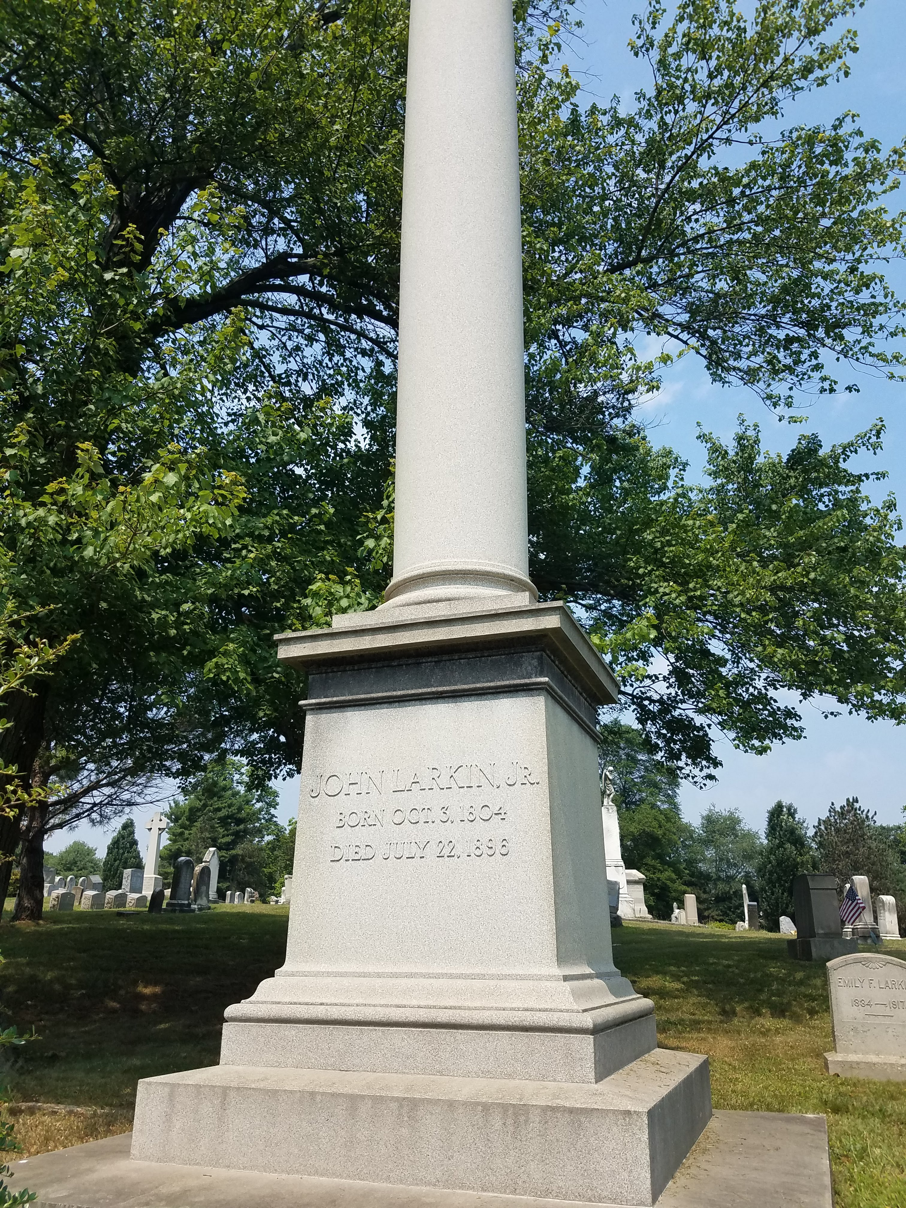 Photo of John Larkin, Jr. gravesite in Chester Rural Cemetery in Chester, Pennsylvania taken July 3, 2018